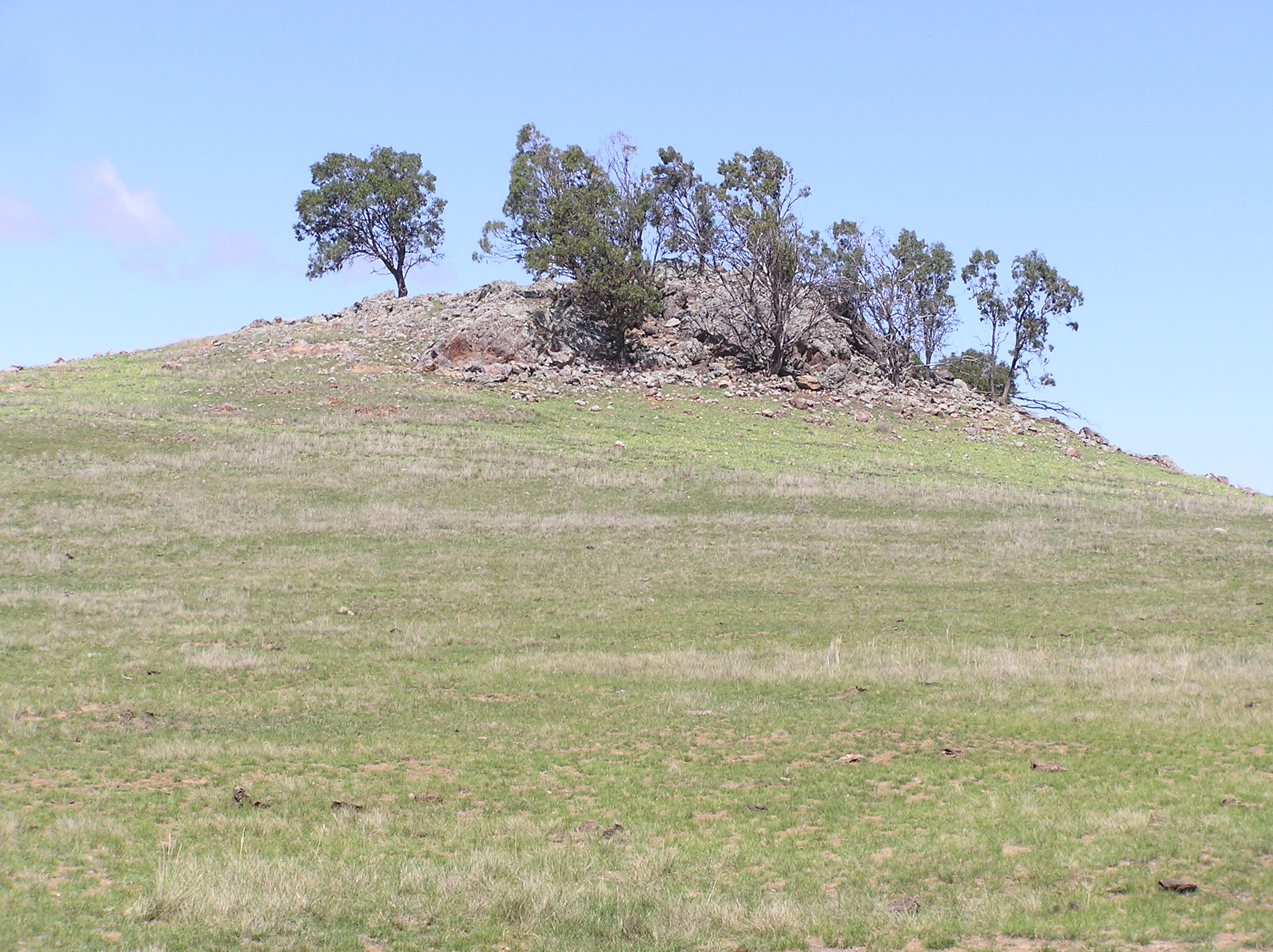 Crace Hill viewed from the North